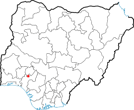 Akure, Nigeria Location Map, Adapted from Locator Map Aba-Nigeria.png which was made by User:Civvi at Wikimedia Commons